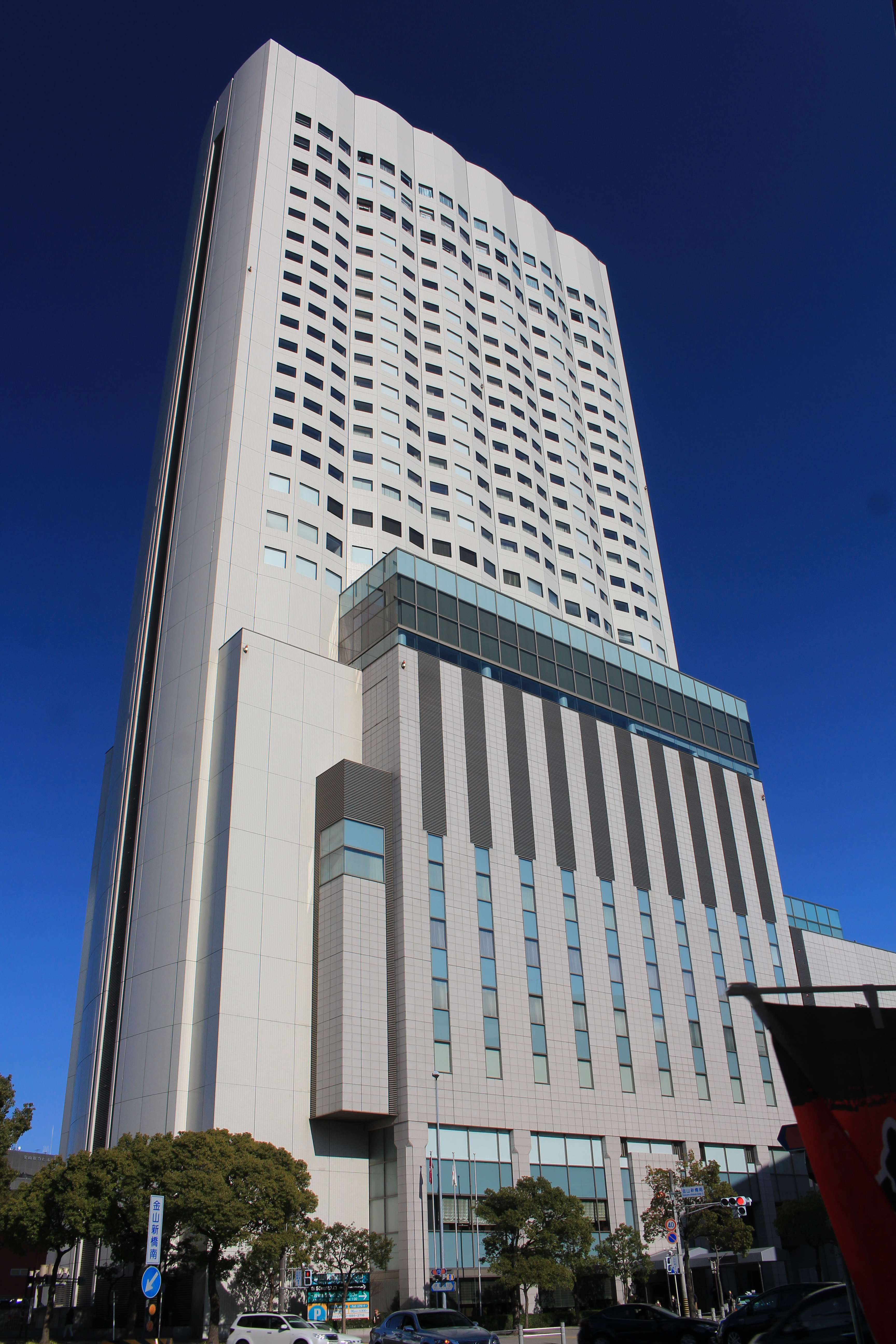 Kanayama Minami Building in Naka-ku, Nagoya, Aichi, Japan.